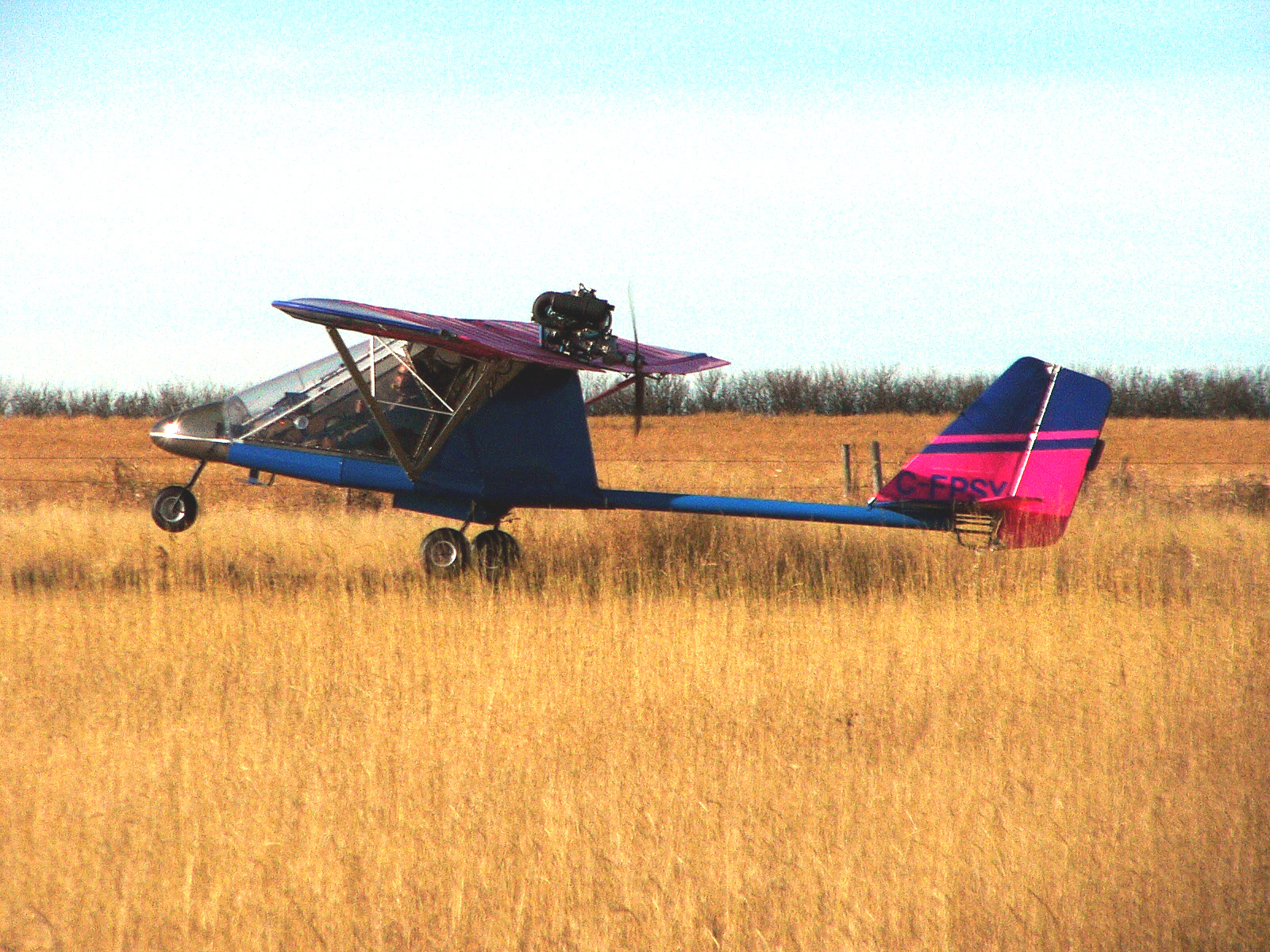 A Rans S-12 Airaile landing at Chestermere-Kirkby aerodrome.